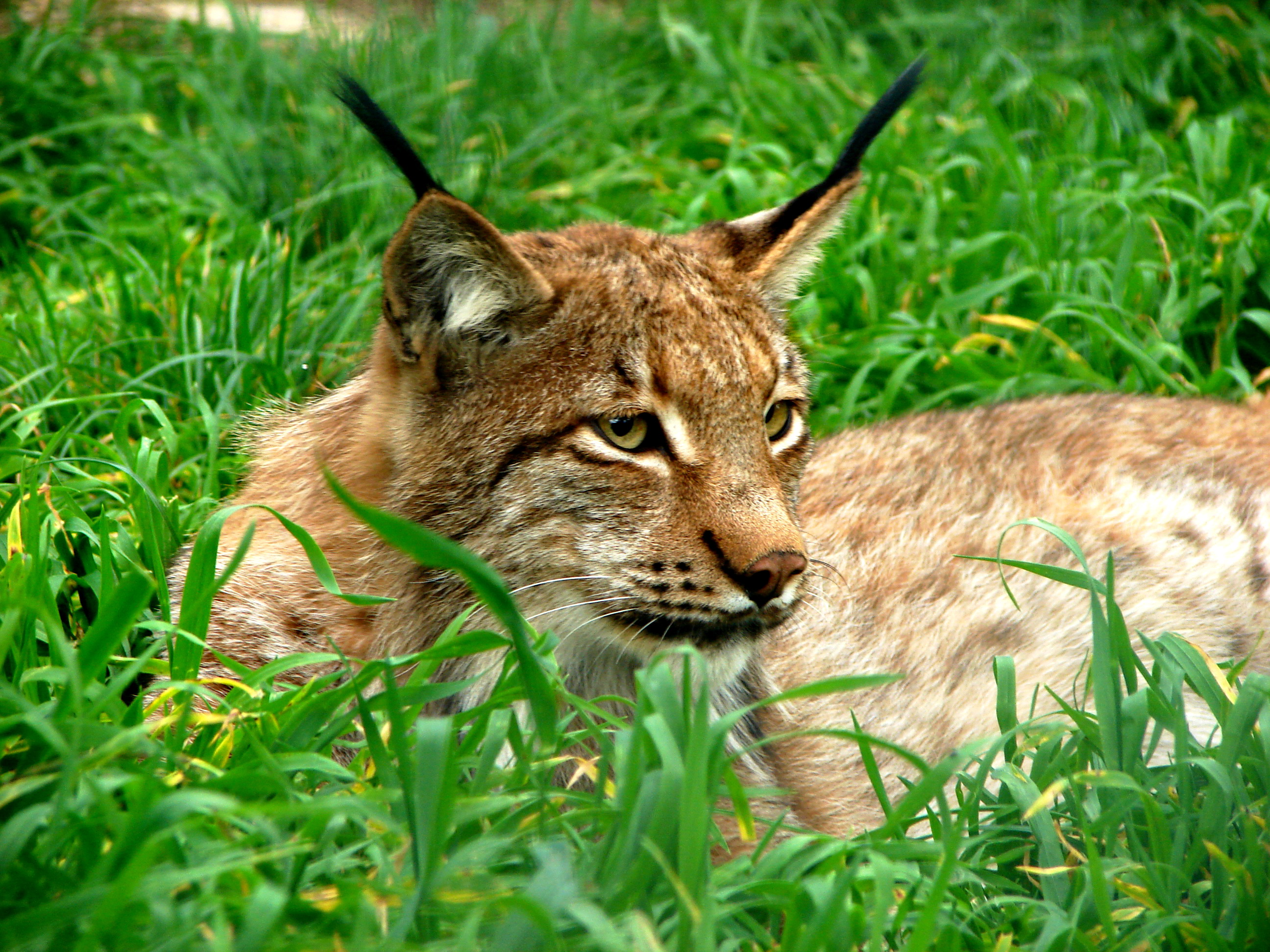 Lynx lynx in Bogazici Zoo.